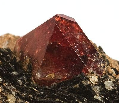 Zircon Locality: Harchu (Harchoo), Astor valley (Astore valley), Astor District (Astore District), Northern Areas, Pakistan (Locality at ) Size: 4.8 x 3.5 x 1.5 cm. A stunning, equant crystal of glassy and gemmy, reddish-orange, zircon is aesthetically perched high on a quartz & biotite mica matrix. The crystal measures 7.5 mm in length. It is glassy and sharp.